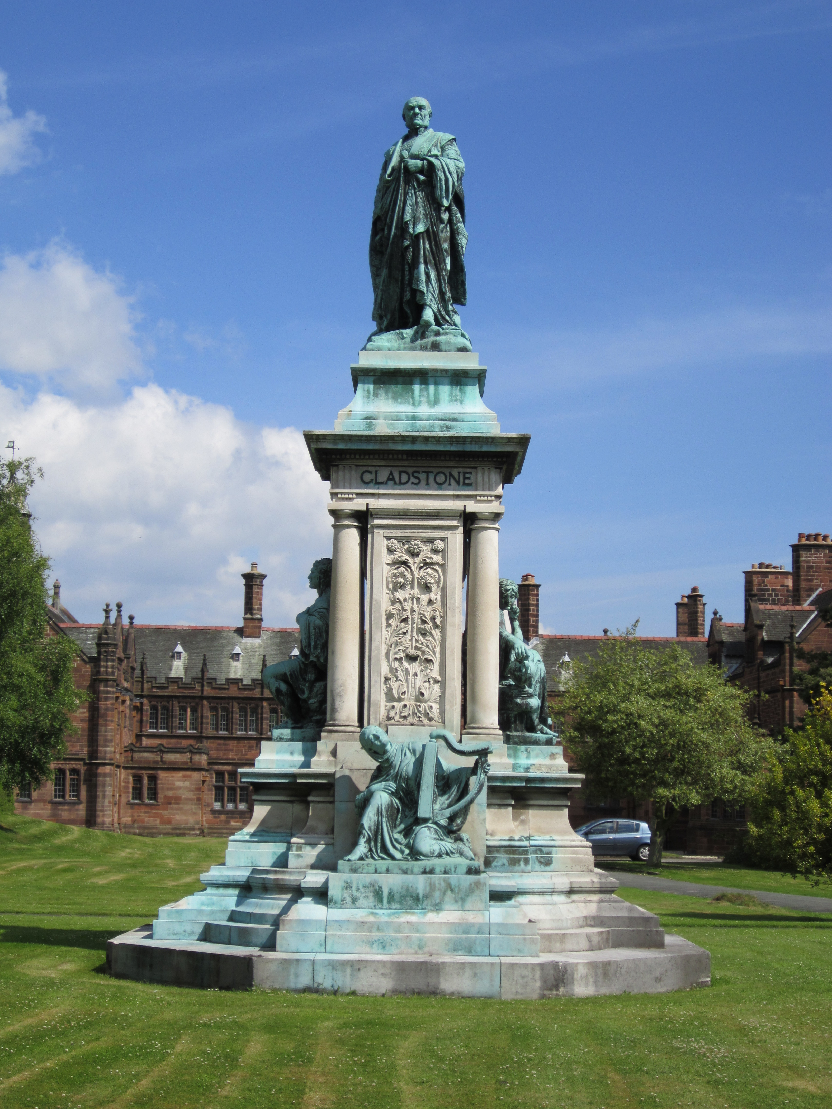 Flintshire, Wales.